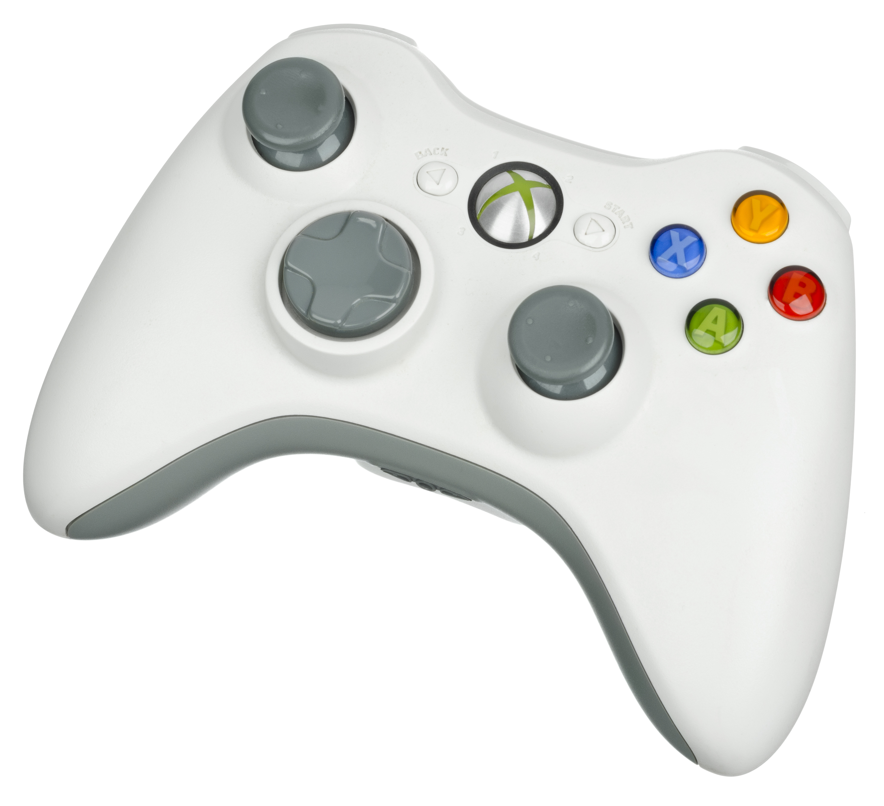 The standard white wireless controller for the Xbox 360 gaming system. The controller runs off two AA batteries or a rechargeable battery pack. It features a communications port on the bottom of the controller for attaching a headset or keyboard to.